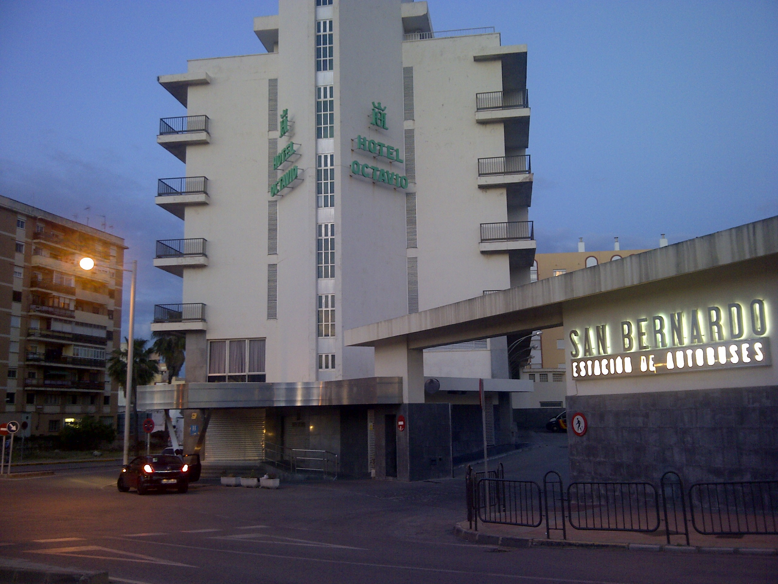 Bus station in Algeciras, Spain